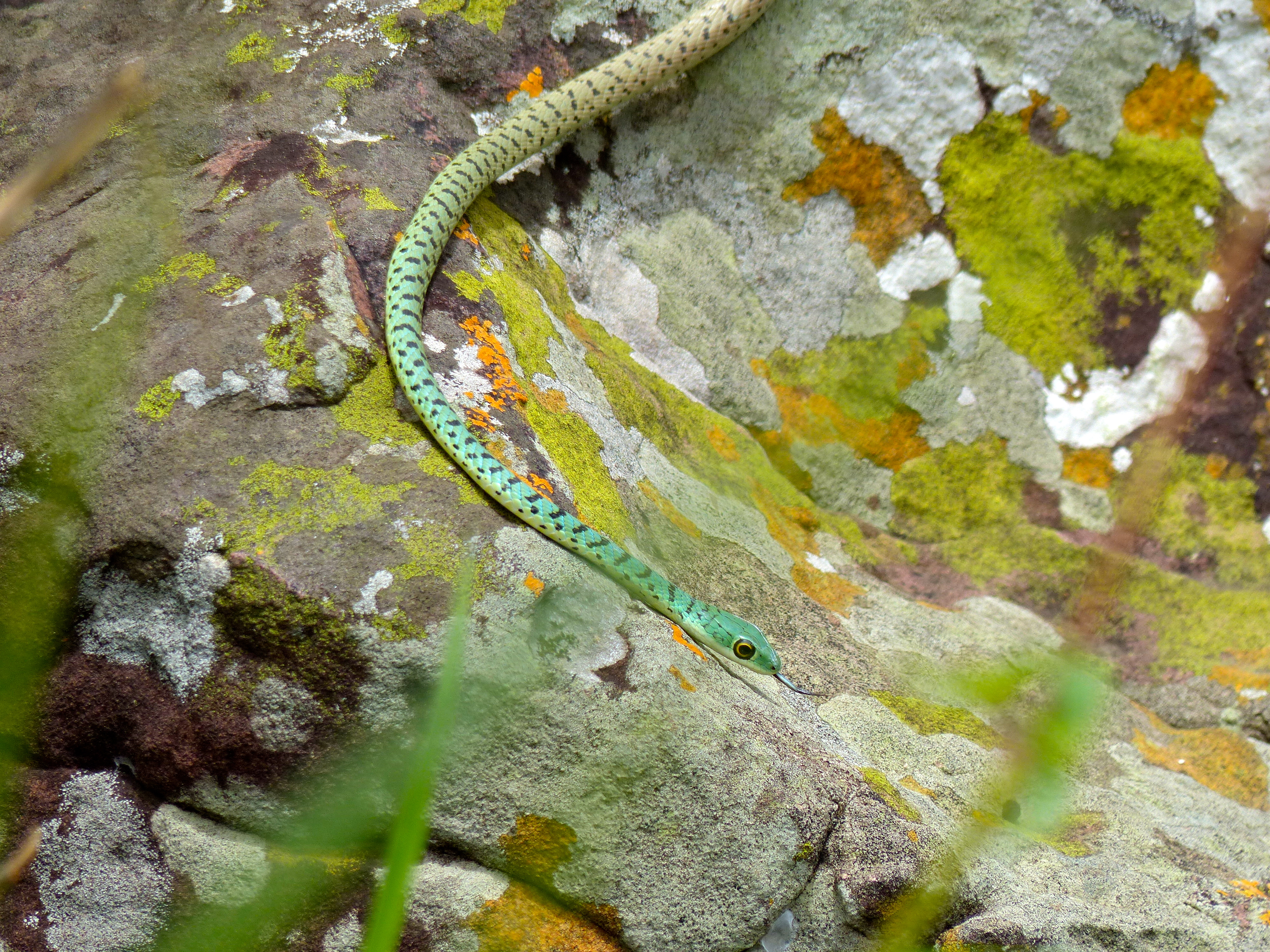 Pioneer Hide, South of Mopani, Kruger NP, SOUTH AFRICA